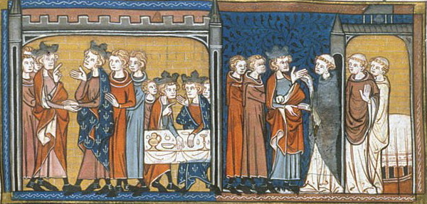 Henry III of England visiting Louis IX of France (left), and Henry III. of England at Saint-Denis (right). (British Library, Royal 16 G VI f. 426)